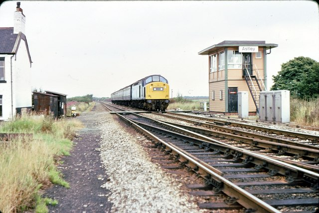 Astley signalbox 1979. A Manchester Victoria to Llandudno train passes over the level crossing at Astley on Chat Moss in August 1979. The houses on the left were originally for the crossing keepers who were effectively marooned in the middle of the Moss.